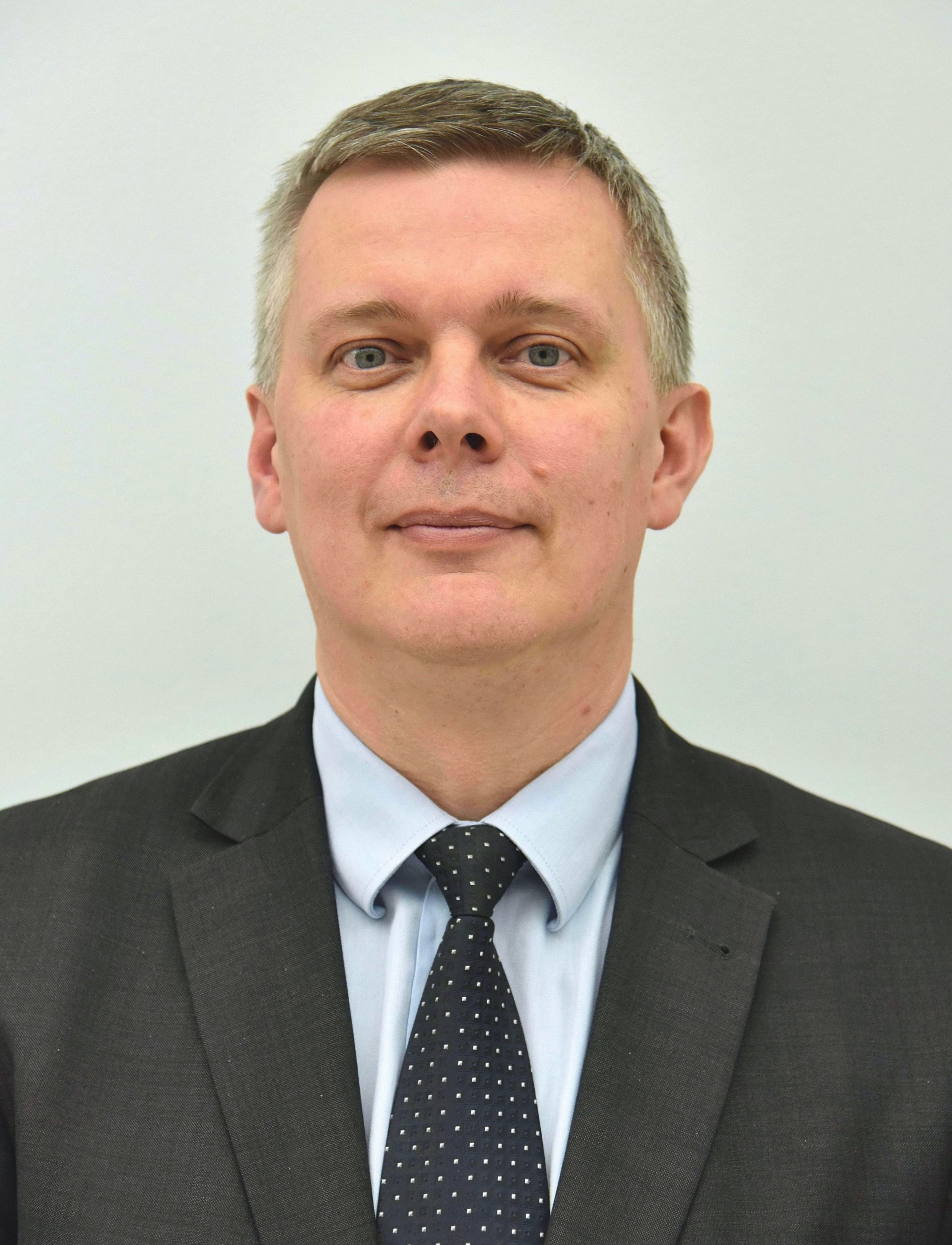 Polish MP Tomasz Siemoniak in the Sejm